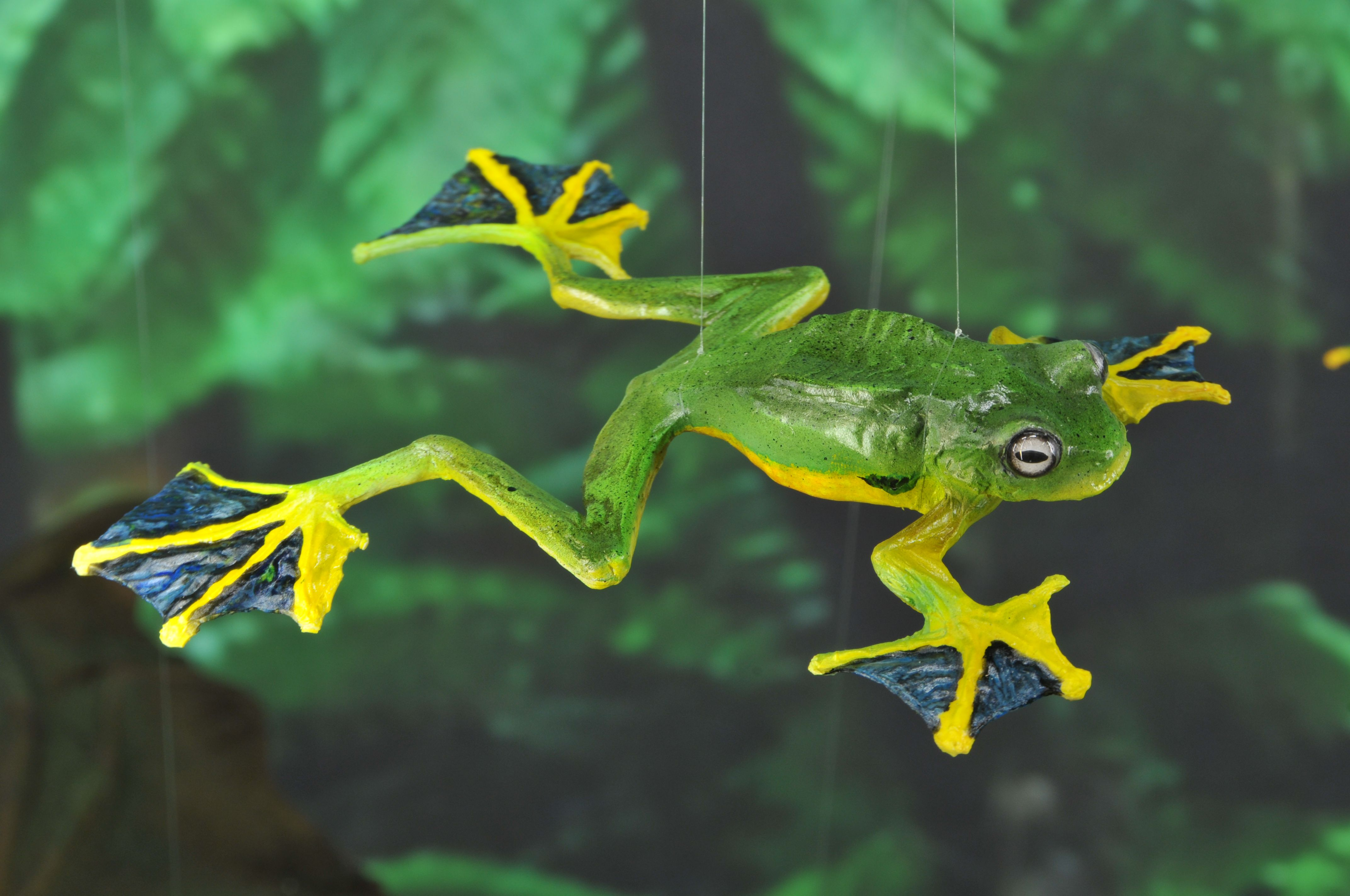 green flying frog (Replica) – Location: Museum Wiesbaden